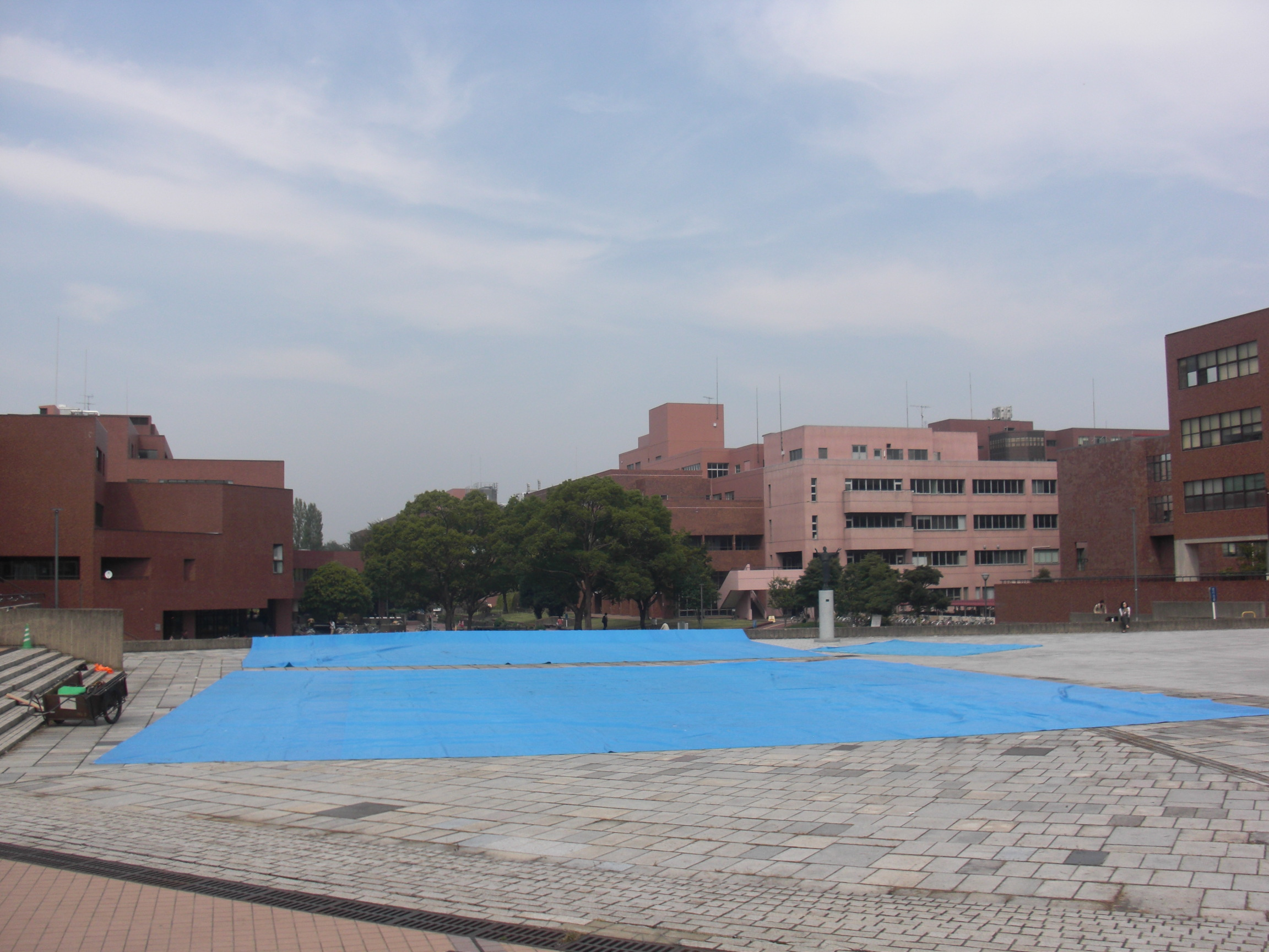 This is a tarpaulin, which was used in University of Tsukuba festival "Sohosai".